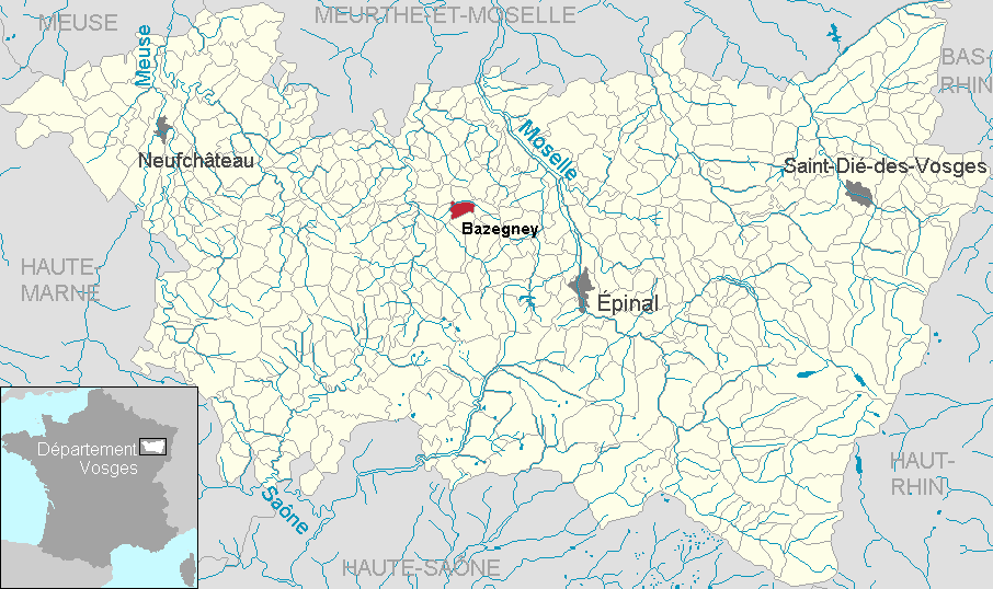 Bazegney in the department of Vosges, Lorraine, France